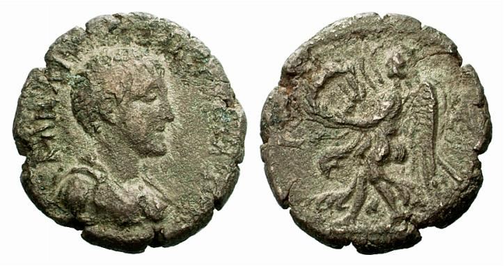 Pertinax Caesar, Tetradrachm, Alexandria 193, billon 12.75 g. KAI[C]AP [ΠΕΡΤΙΝΑΞ]. Bare-headed and draped bust right. Rev. Nike advancing left, holding wreath with both hands; in field, L – A. C 1. Dattari 3980 (these dies and possibly this coin after cleaning). BMC Supp. 3124. Förschener 790.